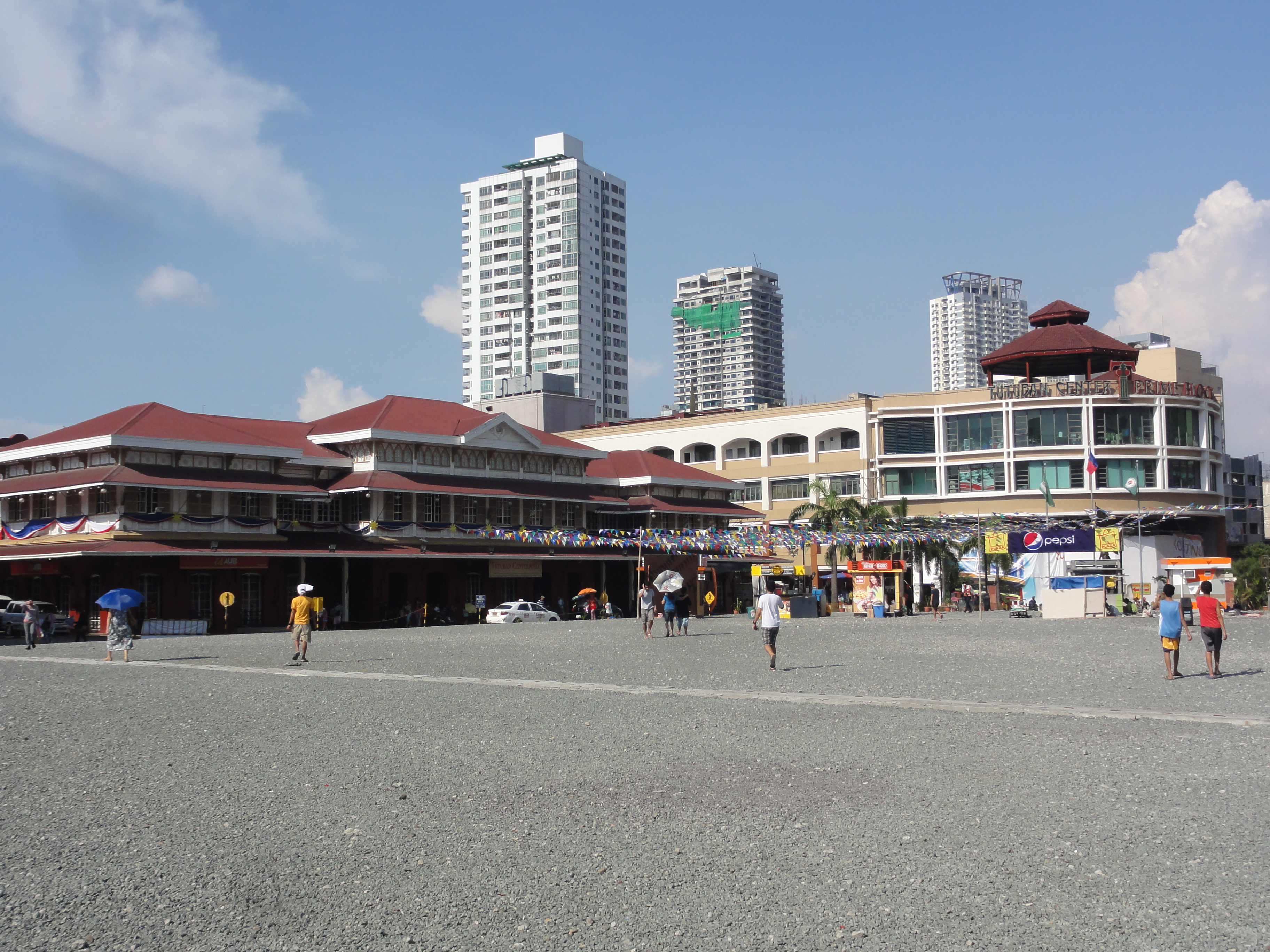 View of Tutuban Center mall along C.M. Recto Avenue, Divisoria, Tondo, Manila as of June 2015. It was formerly the main passenger terminal of the Philippine National Railways.